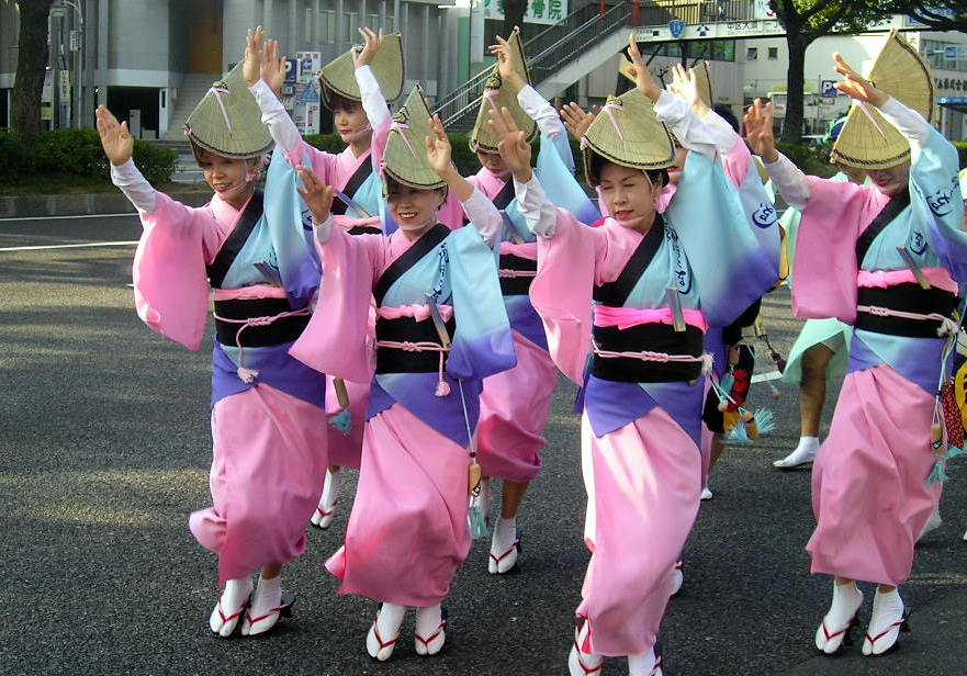 Flickr description: Osu Kannon Temple is famous for its flea market that is held every 8th and 18th of the month which also coincided with Nagoya's Culture Day celebration. Olympus Camedia (October-December 2006, JICA-UNCRD Human Security Course). Slightly improved with Picasa.